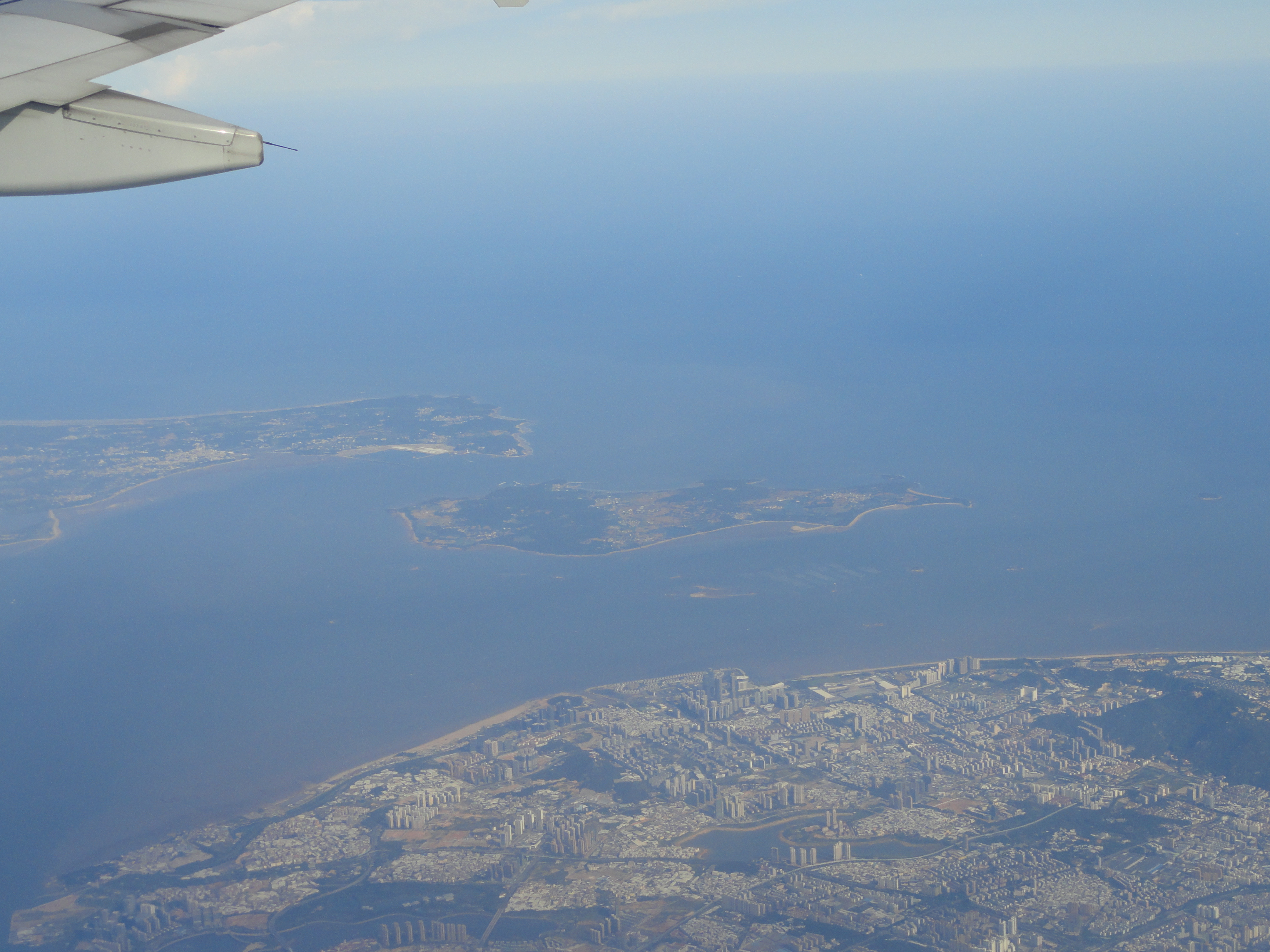 Aerial photograph of Xiamen (Amoy) Island, Lesser Kinmen / Lieyu Island, Greater Kinmen Island and nearby waters and islands